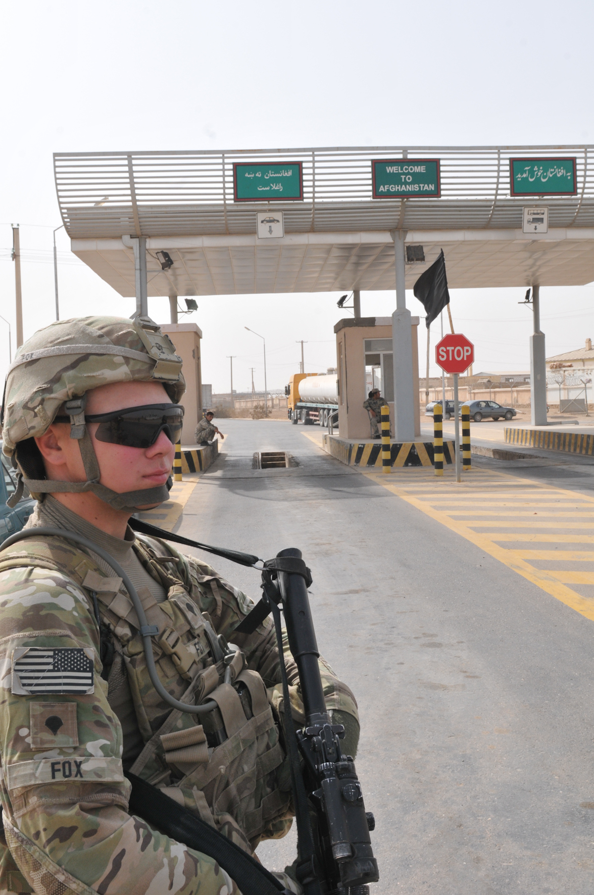 U.S. Army Spc. Devin Fox, a Columbus, Neb., native, now a combat engineer with A Company, 40th Engineer Battalion, 170th Infantry Brigade Combat Team, stands guard near the Shir Khan border crossing point Oct. 3, 2011. The platoon provided security for a group of civilian professionals who train Afghan Border Police.